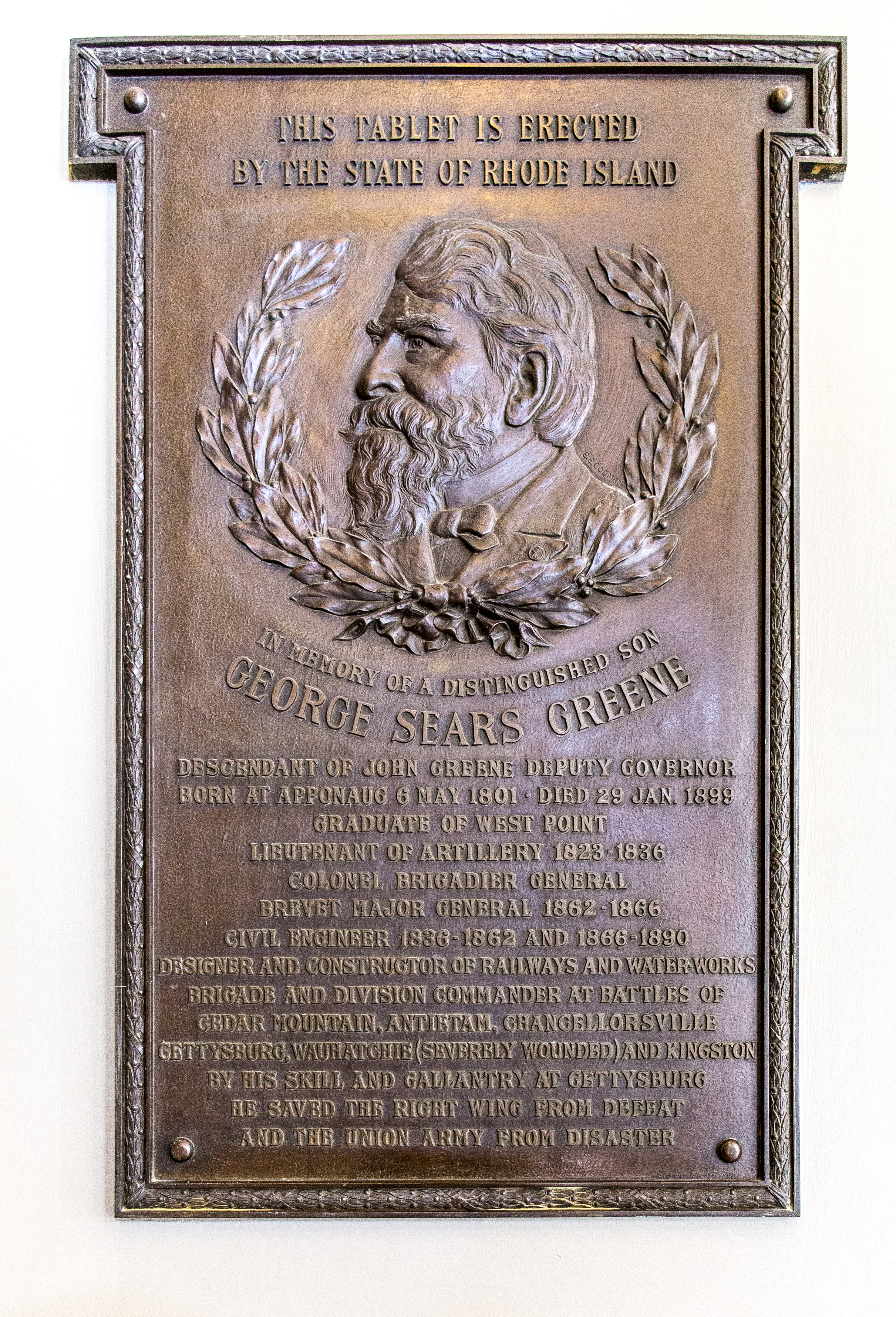 This plaque honoring George Sears Greene hangs inside the Rhode Island State House south entrance.